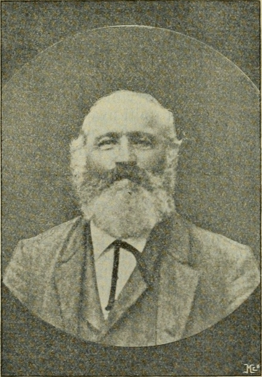 Title: Bulletin de la Soci neuchloise des sciences naturelles Year: -1898 (-180s) Authors: Soci neuchloise des sciences naturelles Subjects: Science; Natural history Publisher: Neuchl : Impr. wolfrath Text Appearing Before Image: Guillaume Ritter IngÃ©nieur Ã NeuchÃ¢teL -1835--19^2 Avec Guillaume Ritter, dÃ©cÃ©dÃ© dans sa propriÃ©tÃ© Ã Monruz, prÃ¨s NeuchÃ tel, le 14 septembre 1912, a dis- paru, beaucoup plus tÃ´t qu'on ne l'aurait attendu de sa constitution robuste, une des ligures les plus marquantes de notre ville. Ritter Ã©tait rÃ©putÃ© bien au delÃ des frontiÃ¨res de notre canton et de la Suisse comme l'ingÃ©nieur gÃ©nial aux conceptions larges et tÃ©mÃ©raires, hautement ap- prÃ©ciÃ© dans notre citÃ© pour tout ce qu'il a contribuÃ© Ã son progrÃ¨s dans divers do- maines. Il Ã©tait aimÃ© et res- pectÃ© de tous ceux qui l'approchaient pour l'amÃ©- nitÃ© de son caractÃ¨re, son dÃ©sintÃ©ressement et sa bontÃ© de cÅur qui s'alliaient Ã mer- veille Ã une exubÃ©rance de tempÃ©rament, un enthousiasme pour tout ce qui est beau et bon et une franchise parfois vive, mais toujours bienfaisante. Guillaume Ritter fut l'un des membres les plus zÃ©lÃ©s de la SociÃ©tÃ© neuchÃ teloise des sciences naturelles. ReÃ§u membre actif en 1857, il le demeura jusqu'Ã sa mort, c'est-Ã -dire pendant 55 ans. Les nombreuses contributions qu'il fournit Ã notre bulletin et dont la liste est annexÃ©e Ã ces lignes, font foi de son activitÃ©. MalgrÃ© le retard causÃ© par des circonstances spÃ©- ciales, nous devons une place Ã sa mÃ©moire. Nous le faisons Text Appearing After Image: '